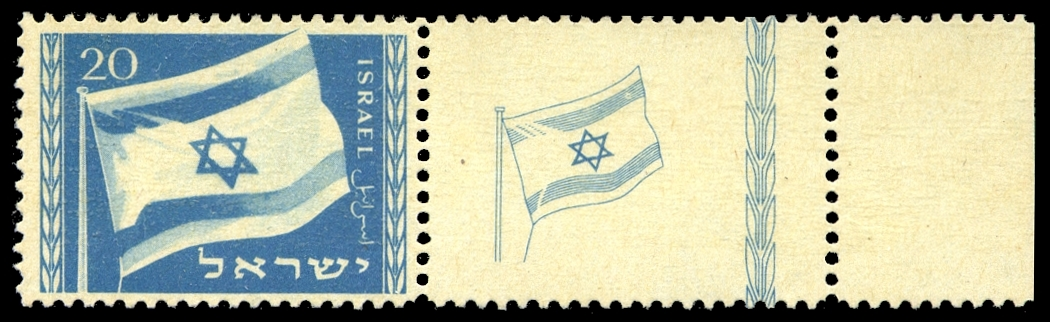 1949 Israeli postal stamp depicting the flag of Israel